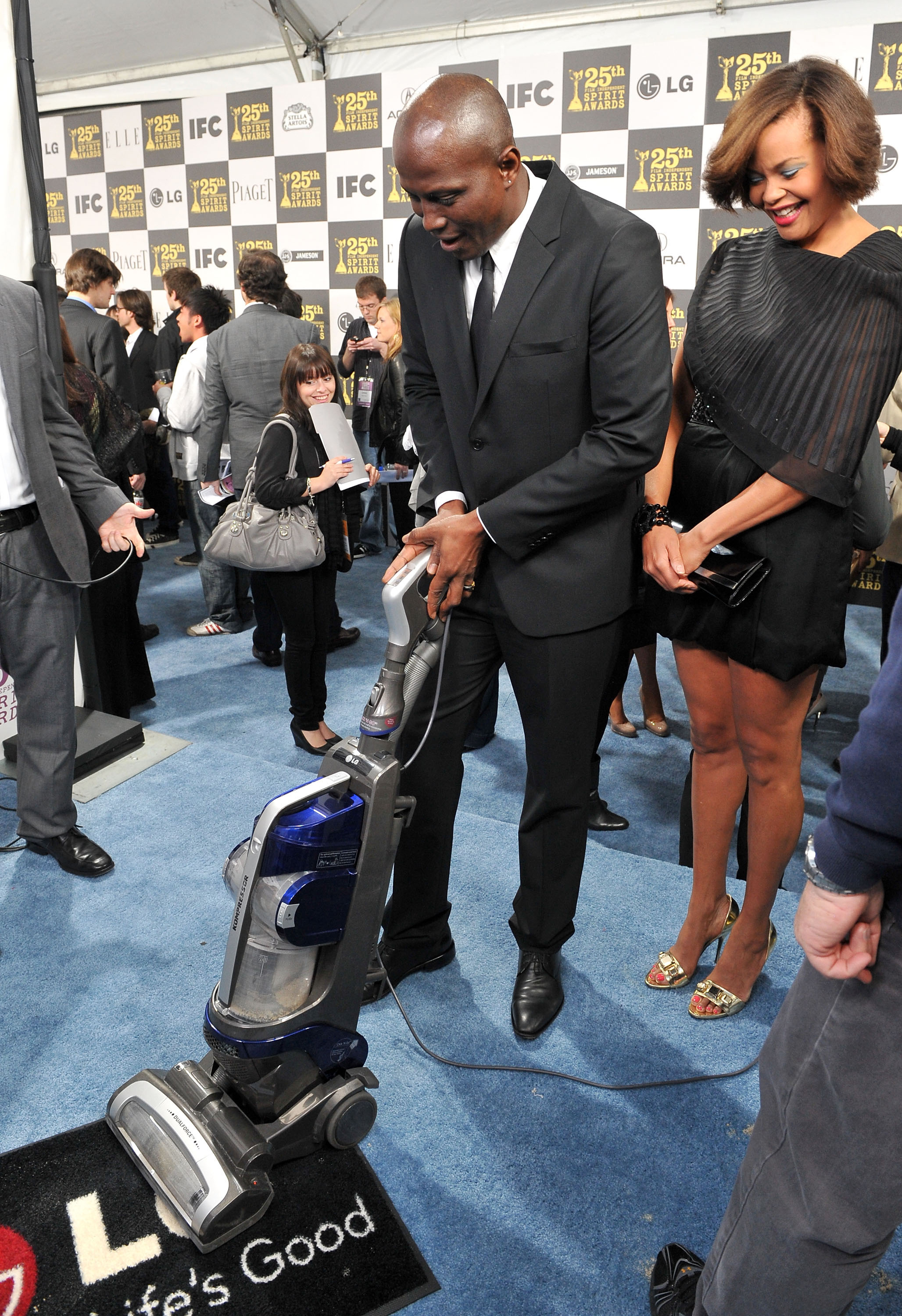 Actor Souléymane Sy Savané with the LG Electronics Kompressor Vacuum on The 25th Spirit Awards Blue Carpet held at Nokia Theatre L.A. Live on March 5, 2010 in Los Angeles, California. Stars Take on Charitable Chore with LG Electronics Kompressor Vacuum on The 25th Spirit Awards Blue Carpet Nokia Theatre L.A. Live Los Angeles, CA United States March 5, 2010 Photo by George Pimentel/WireImage.com